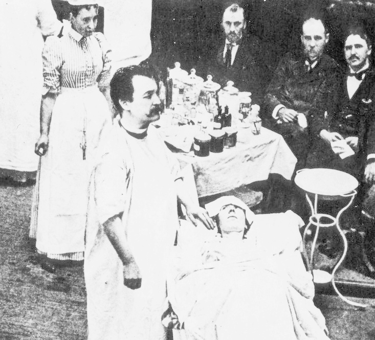 Rush Medical College professor of surgery, Nicholas Senn, MD, was the first surgeon to detect intestinal perforation by inflation with hydrogen gas. This photograph depicts Senn conducting a surgical clinic for medical students in 1895.